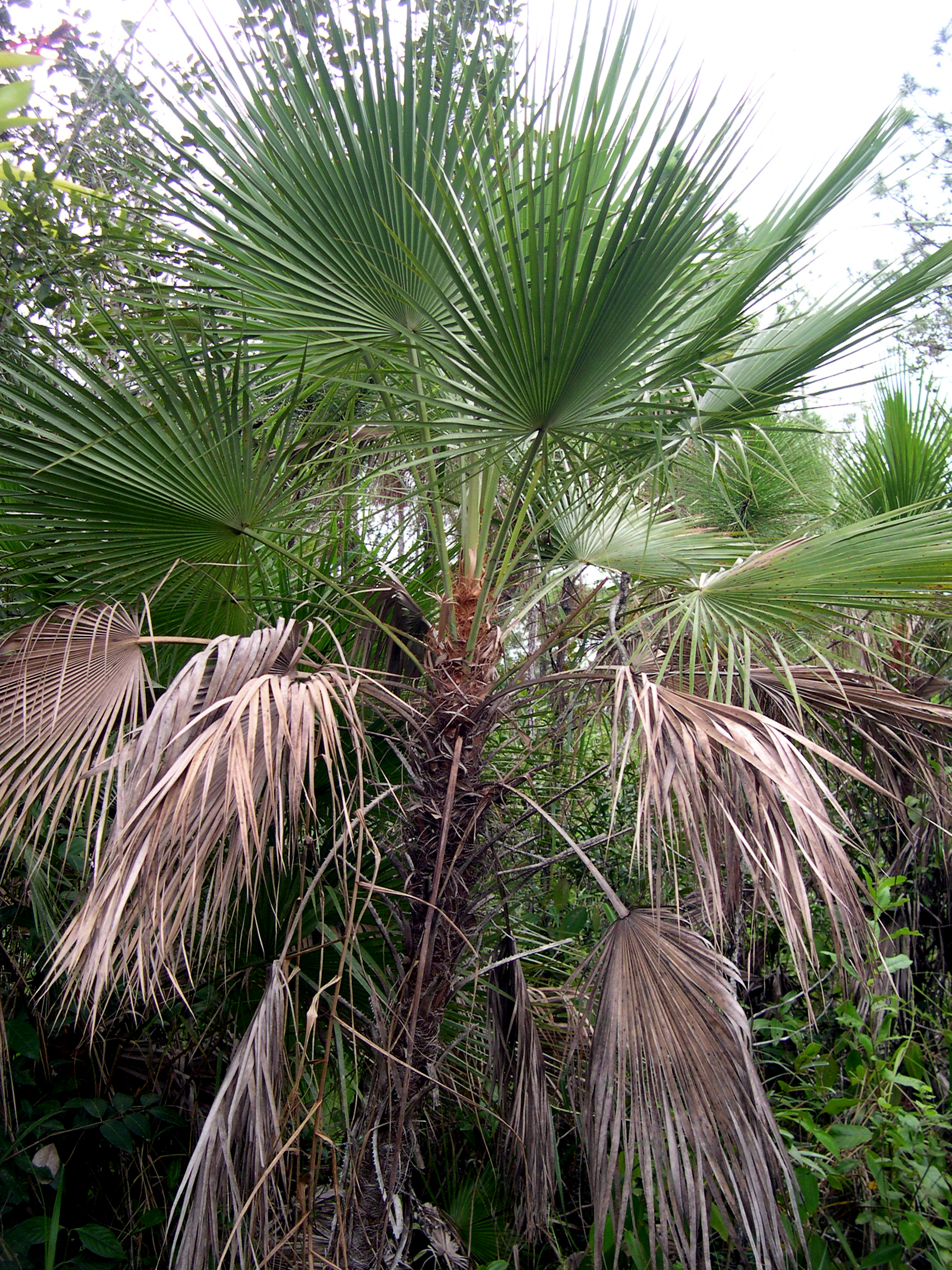 Acoeloraphe wrightii — Silver saw palmetto in Belize.